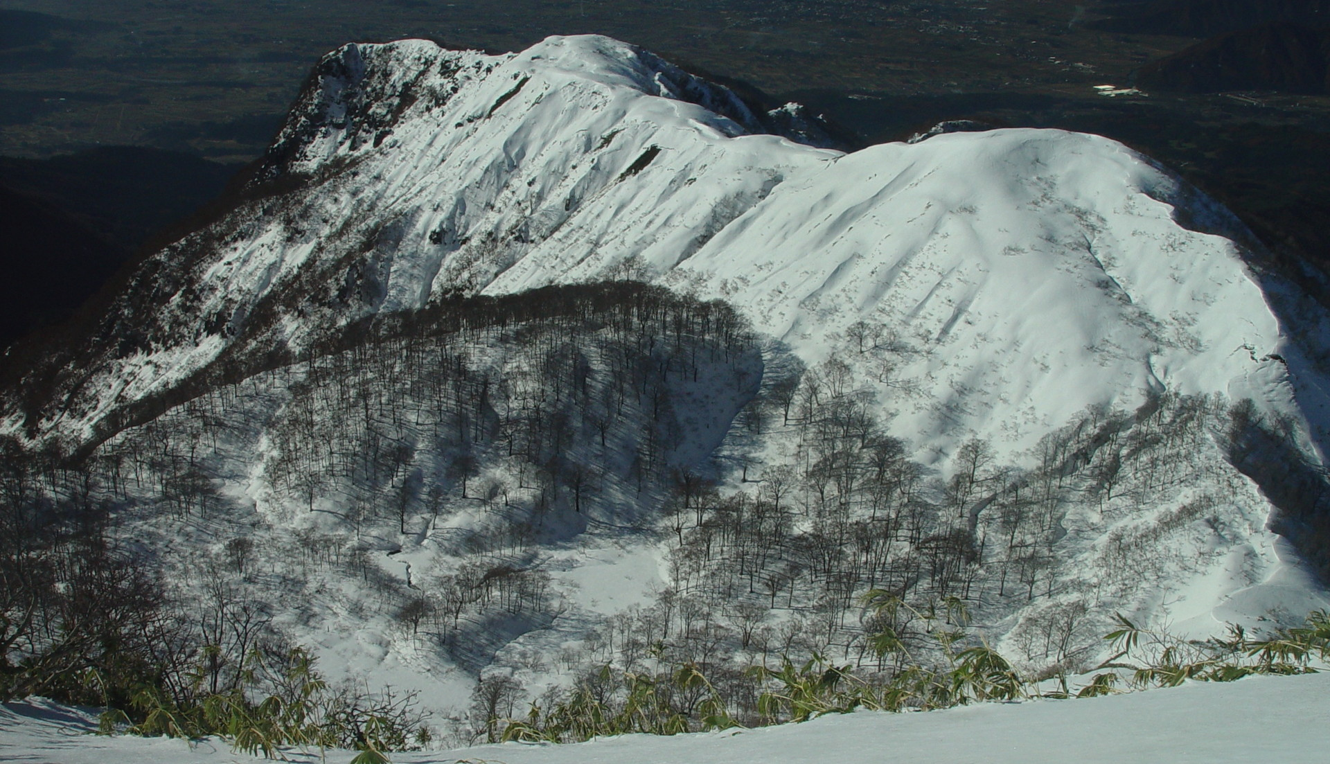 Ikenoosawa from Mount Kyo